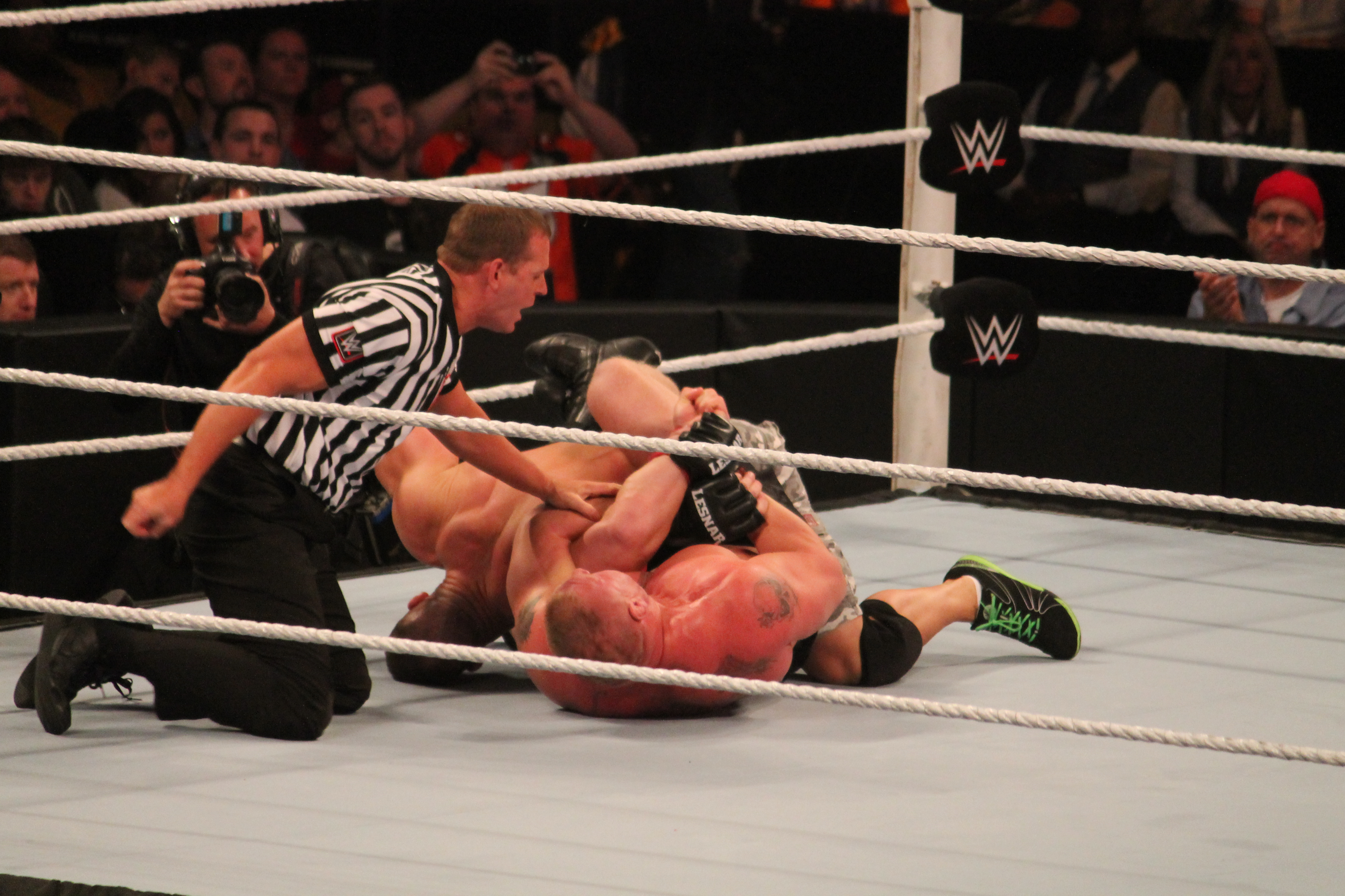 Brock Lesnar puts John Cena in the kimura lock